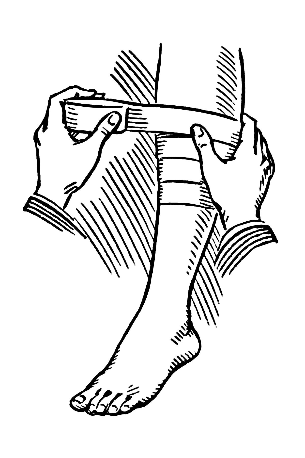 Line art drawing of a bandage being applied.